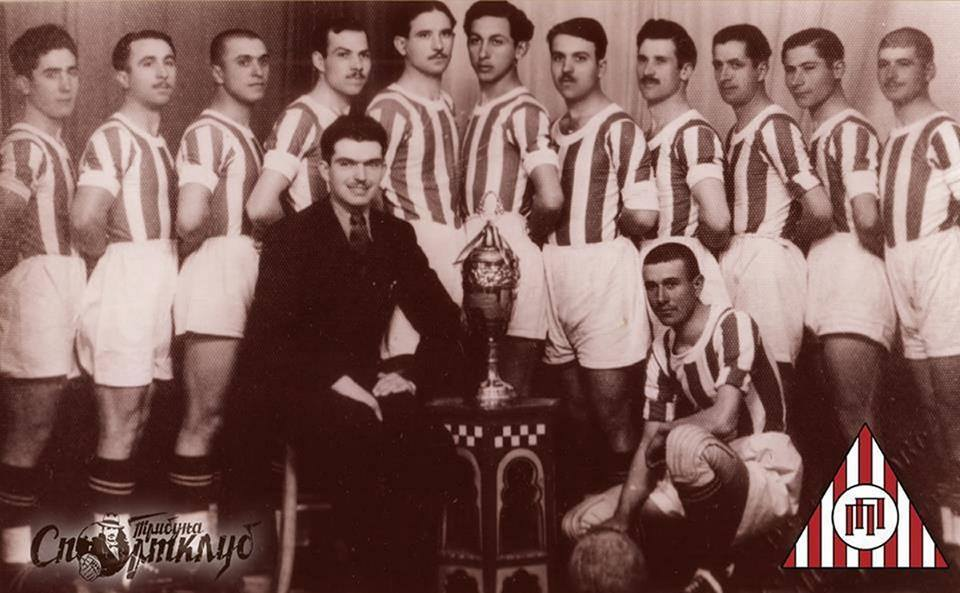 Football team "Petar Parchevich" Plovdiv, 1941